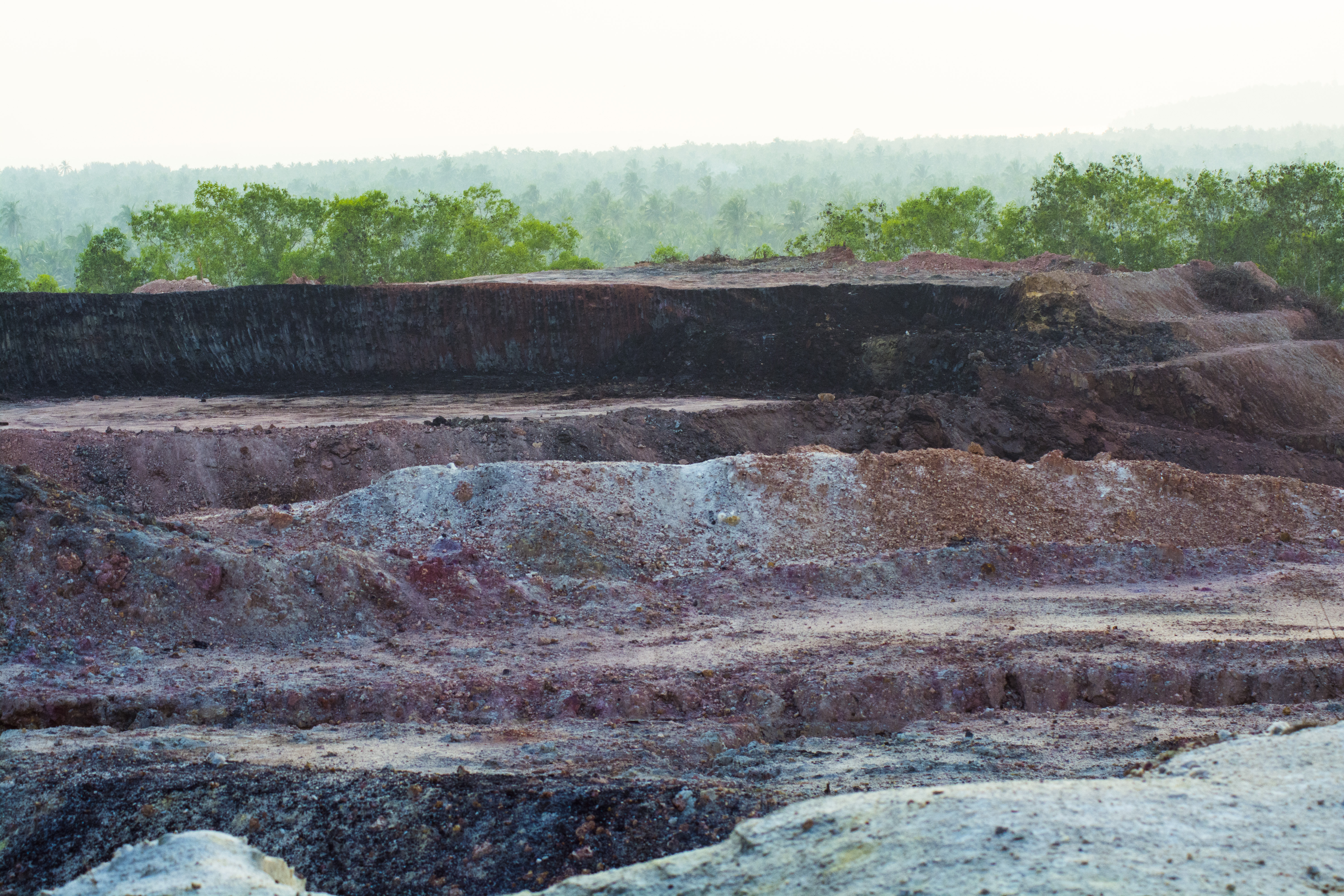 Clay mining at Madayippaara in Kannur